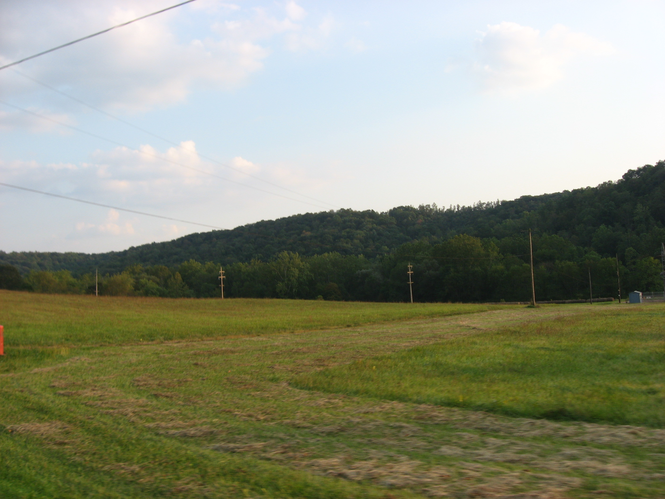 View of countryside in northwestern South Beaver Township, Beaver County, Pennsylvania, United States.